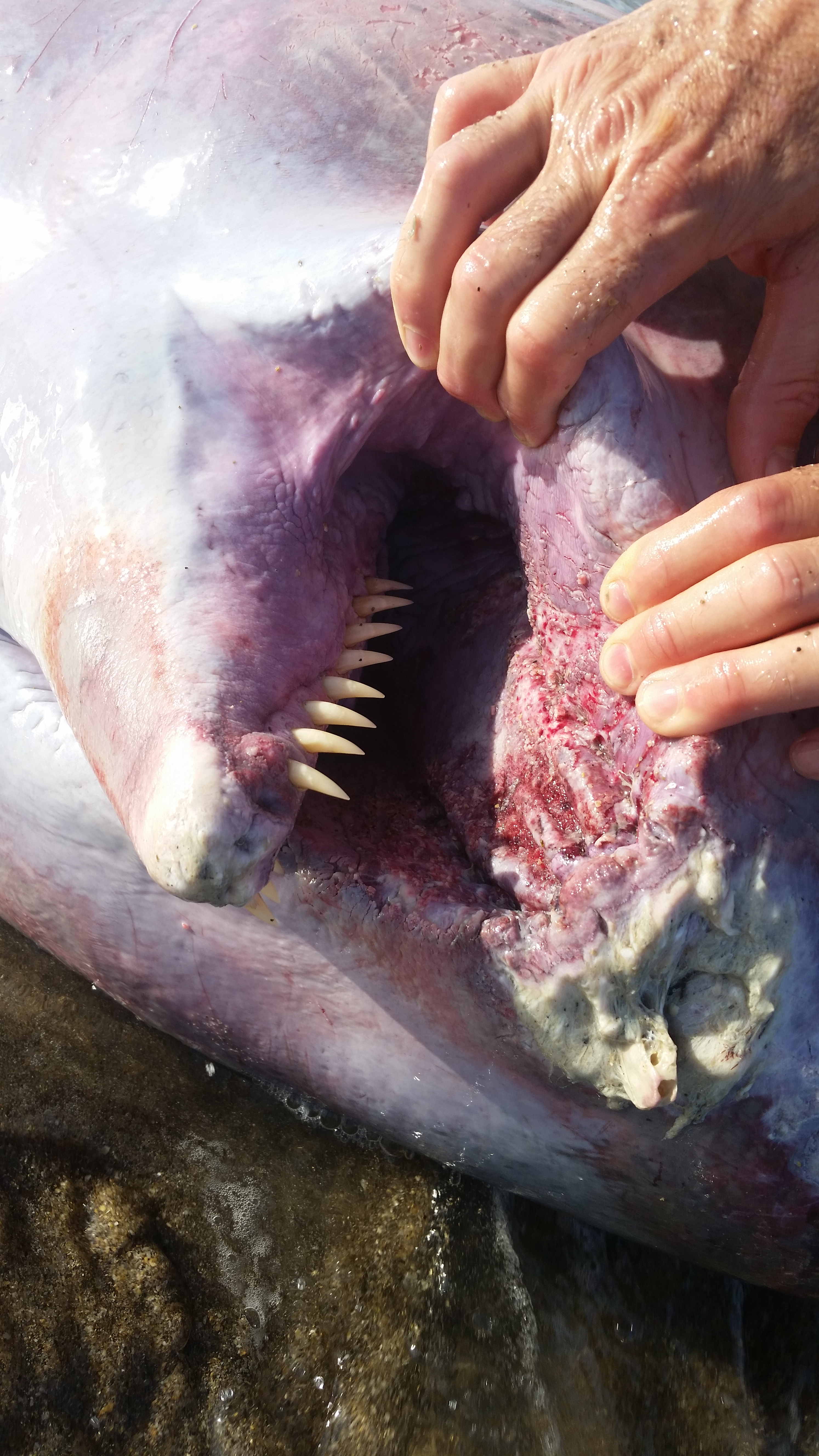 Pygmy sperm whale (Kogia breviceps) teeth only occur on the rostral part of the lower jaw.